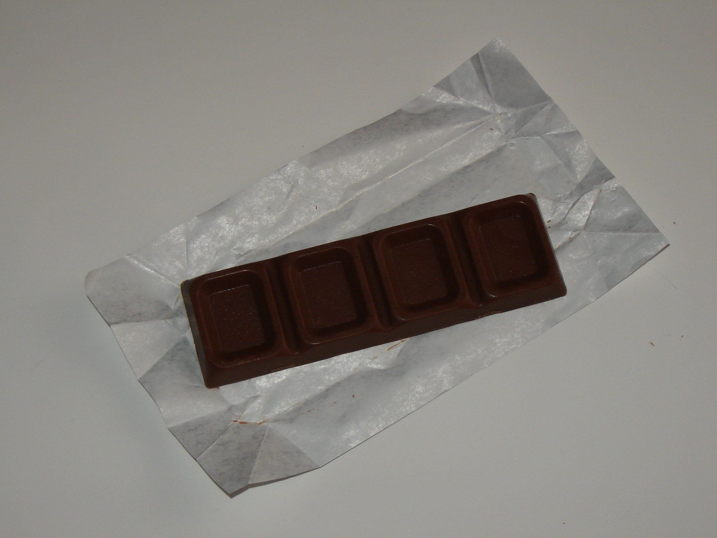 Koetjesreep cacao confectionery. Bar and wrapper.